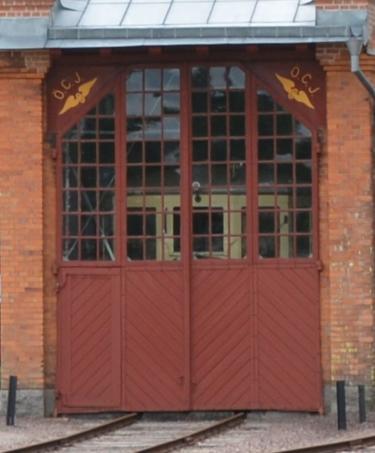 Rälsbuss i Lokstallet i Kisa